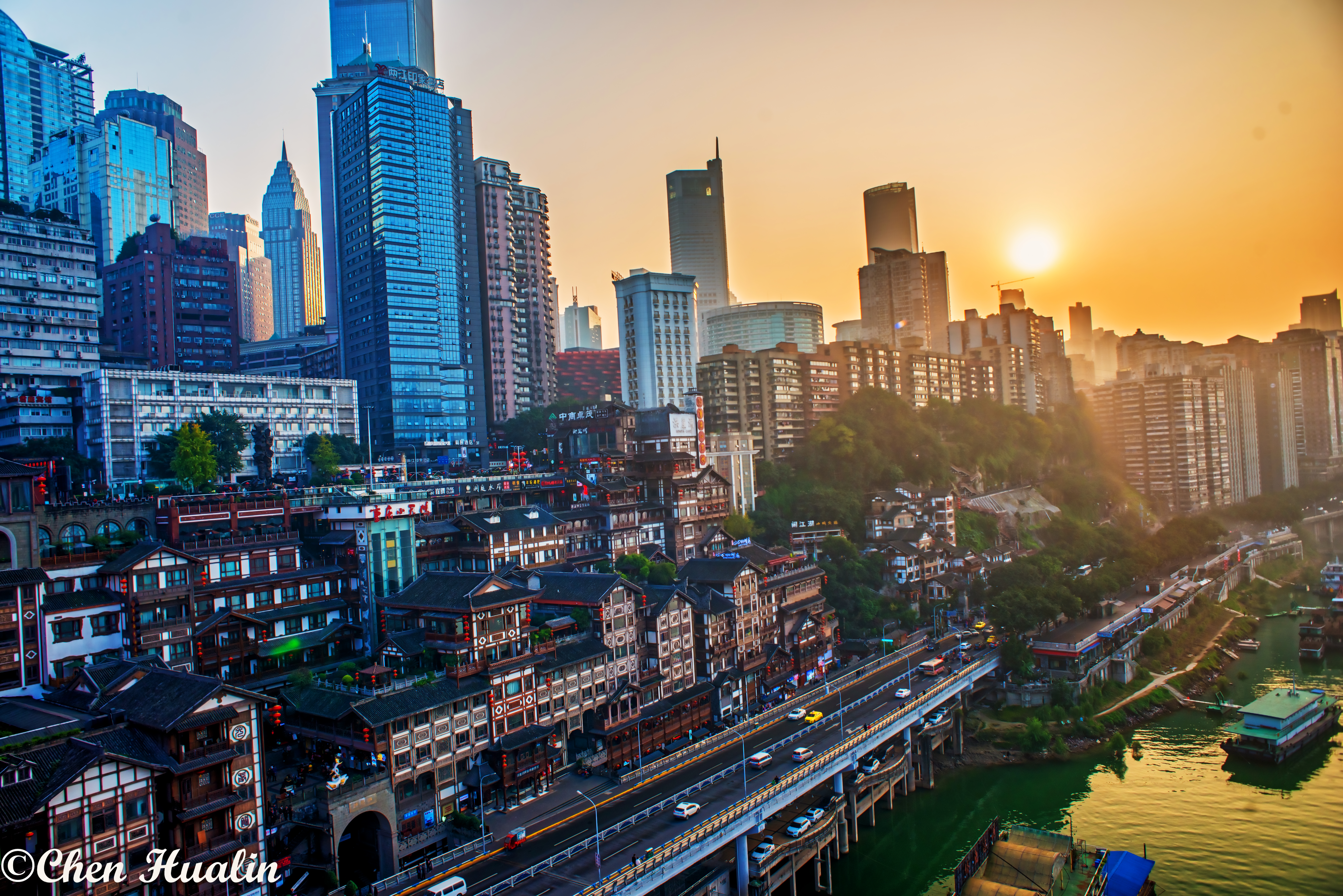 The skyscrapers of Chongqing CBD with Hongya Cave at sunset